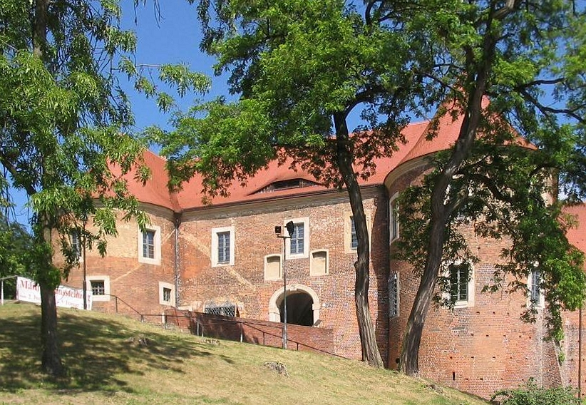 Castle Eisenhardt in Belzig, portal. Belzig is the central town of the district Potsdam-Mittelmark in the state Brandenburg of Germany. Belzig appertains to the natural preserve Naturpark Hoher Fläming.